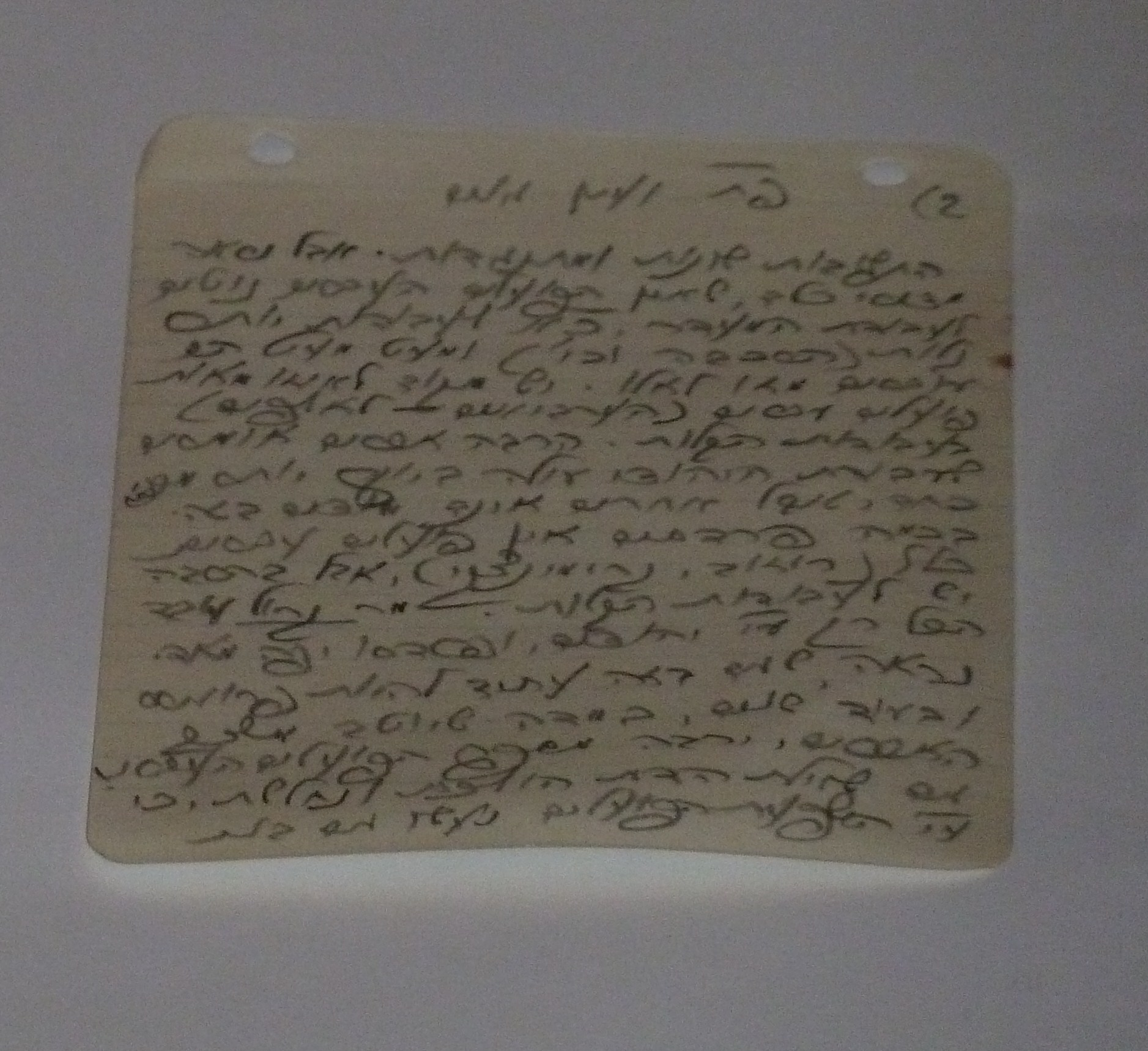 GLAM National Library of Israel Tour